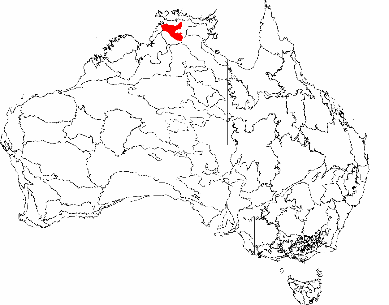 This is a map of the Interim Biogeographic Regionalisation of Australia (IBRA), with state boundaries overlaid. The Pine Creek region is shown in red.